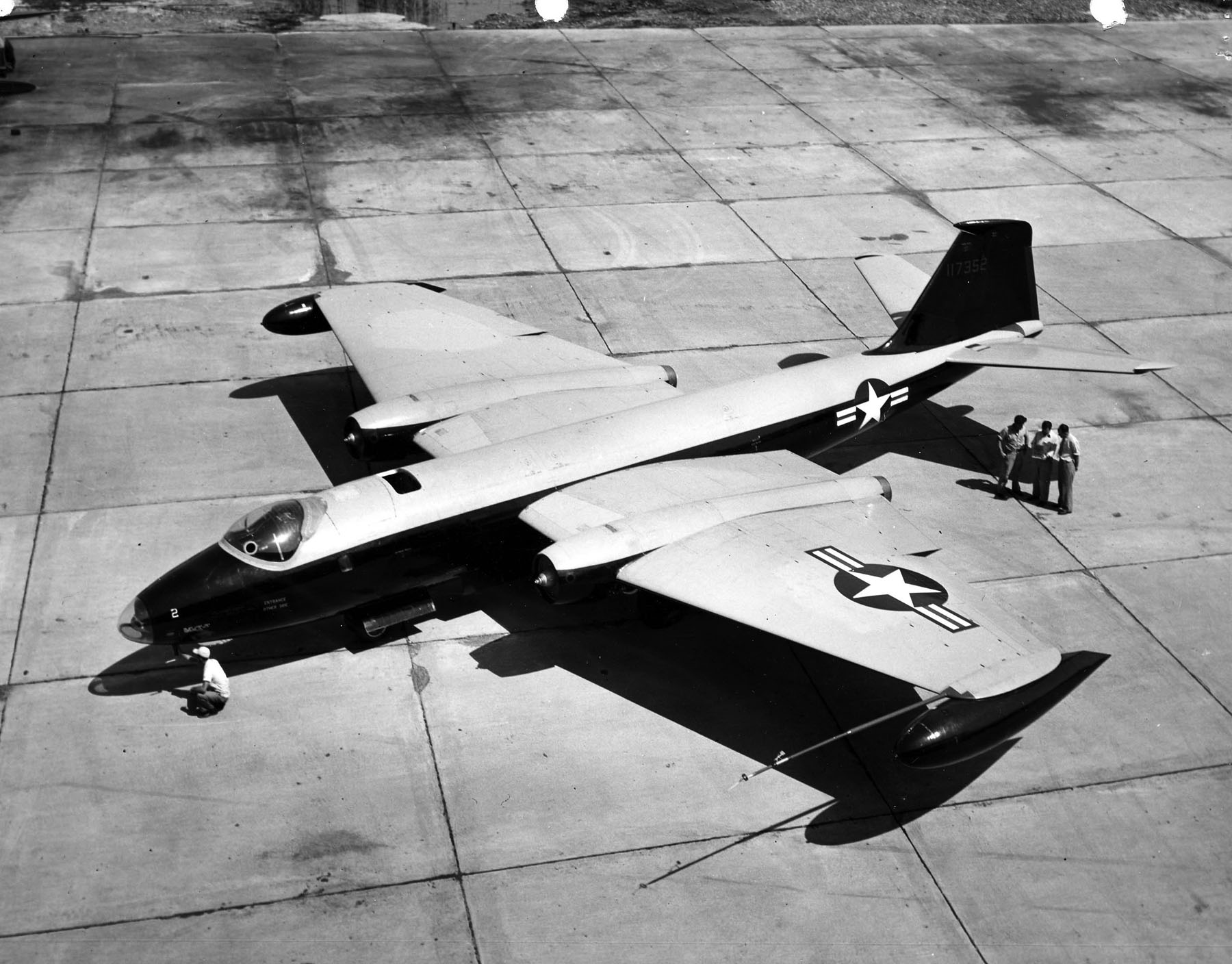 The English Electric Canberra B2 (RAF serial WD940) which was used as the U.S. Air Force B-57 prototype (s/n 51-17352) in 1951.